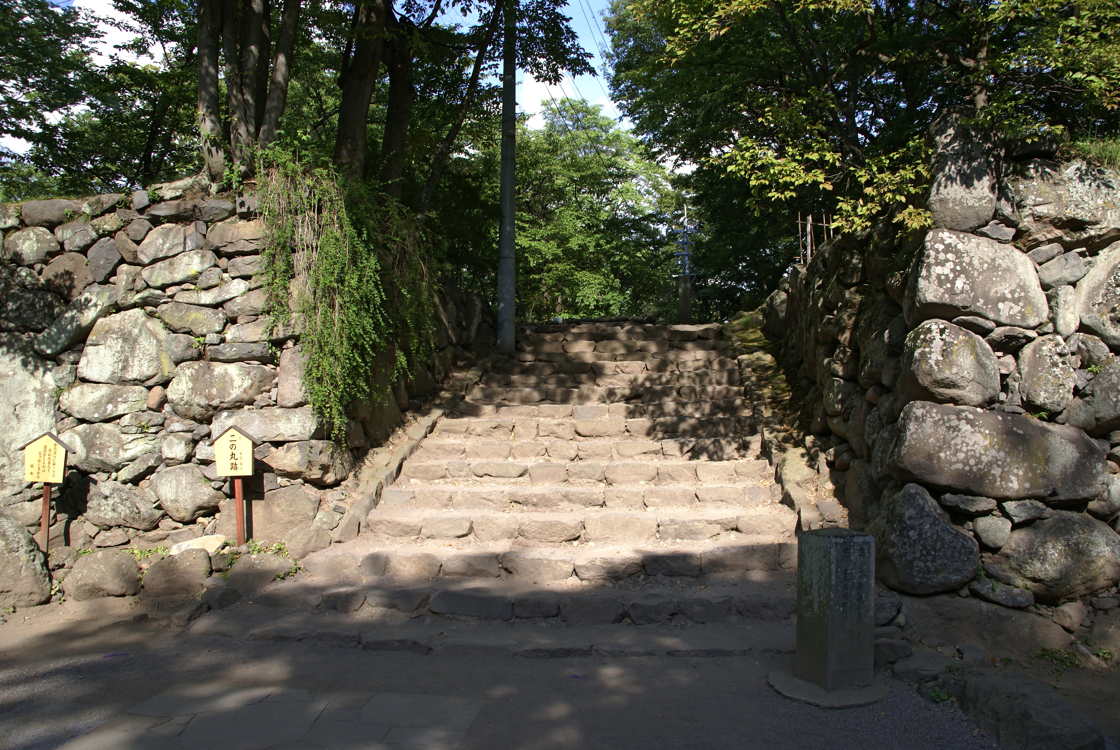 Komoro Castle in Komoro, Nagano prefecture, Japan